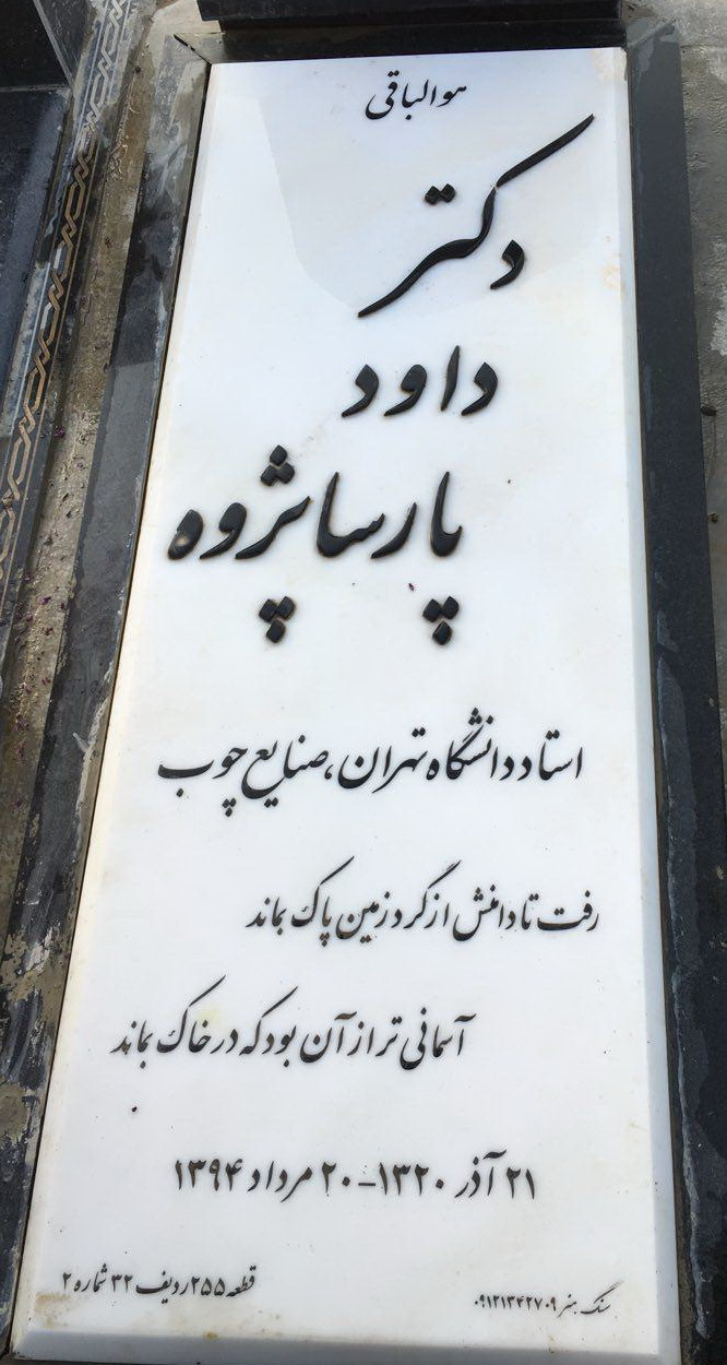 Davoud Grave